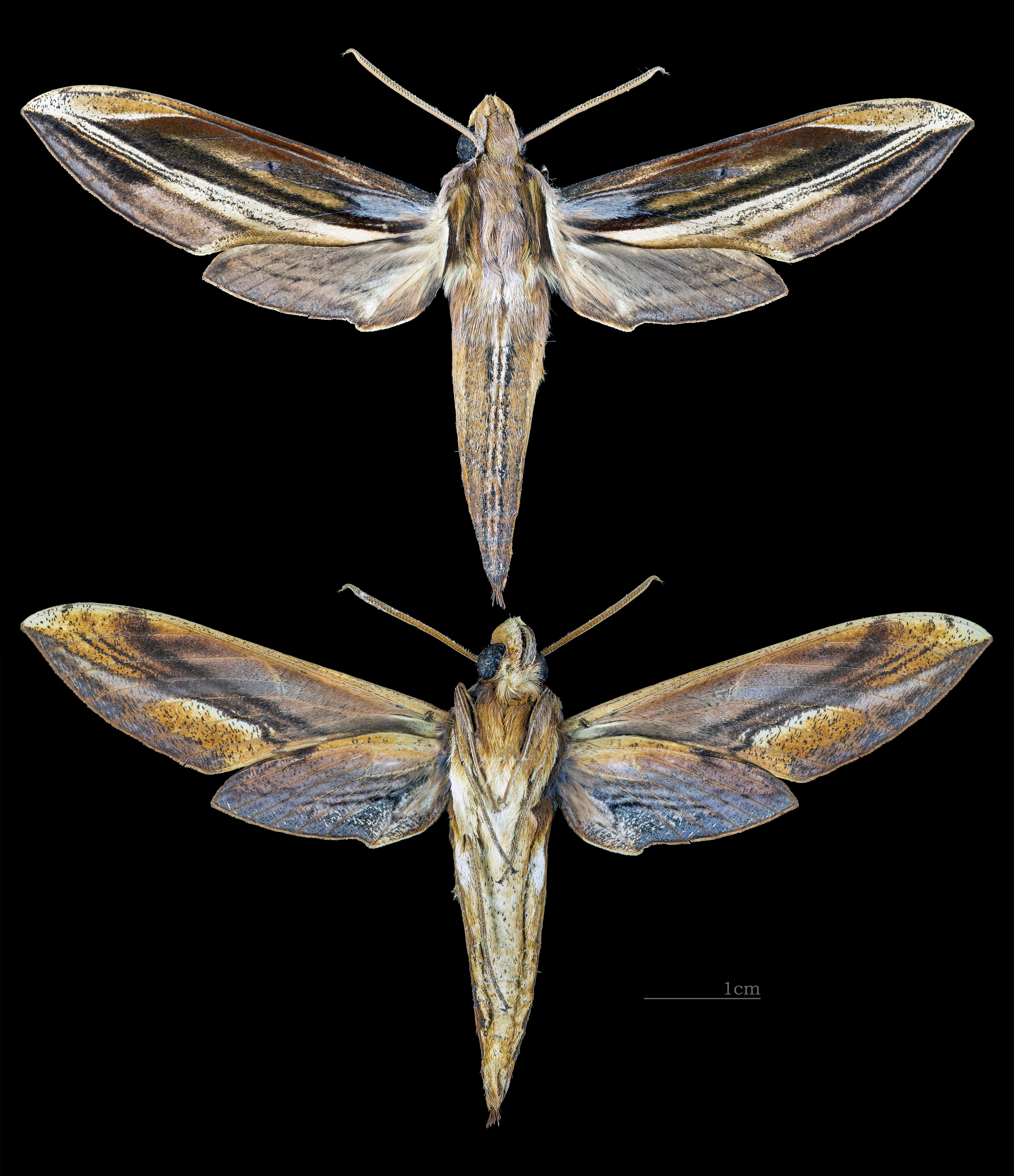 Xylophanes pyrrhus - Two views of same specimen